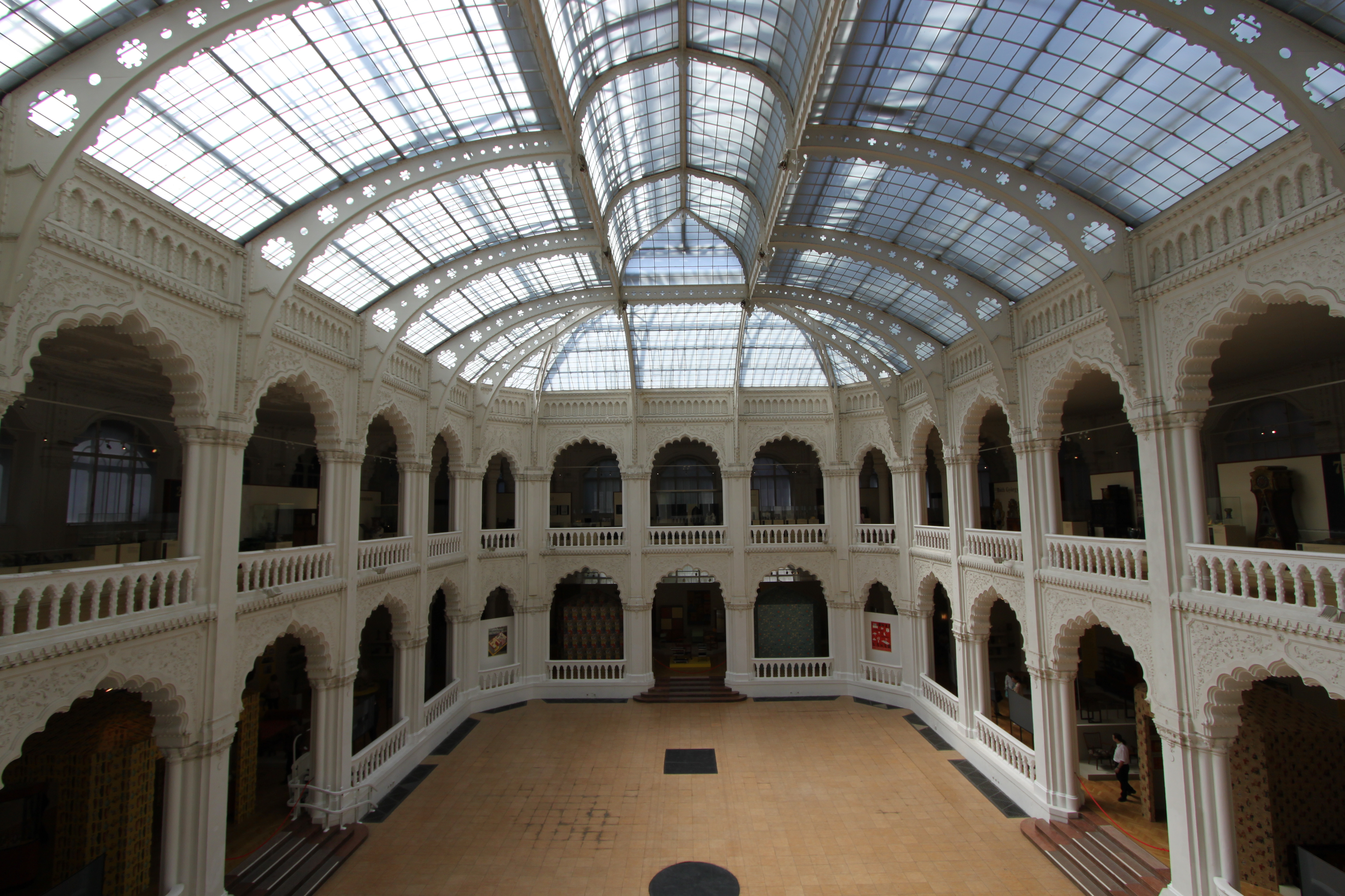 Museum of Applies Arts, atrium, view from the first floor